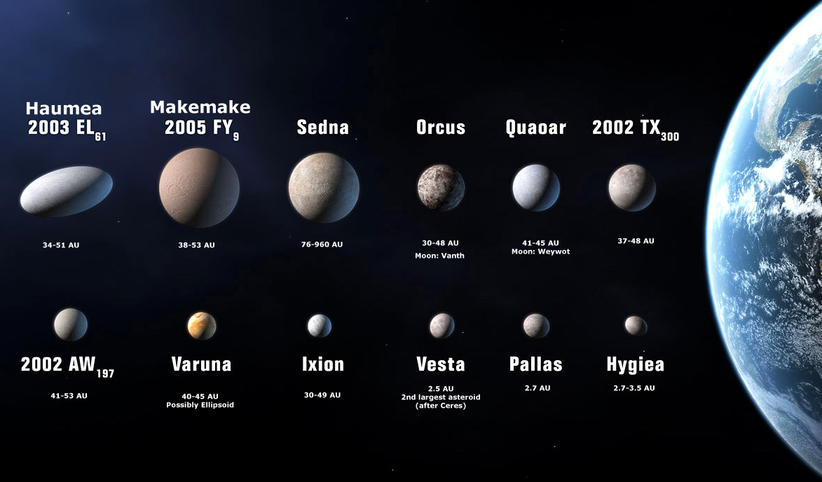 List of 12 Planet candidates per the IAU 2006 draft proposal XXVI, dating from 2007-07-23. Revised image includes additional information including approximate A.U. distance figures for the depicted bodies, as well as approved names for 2003EL61 (Haumea) and 2005FY9 (Makemmake), not present on the original version.